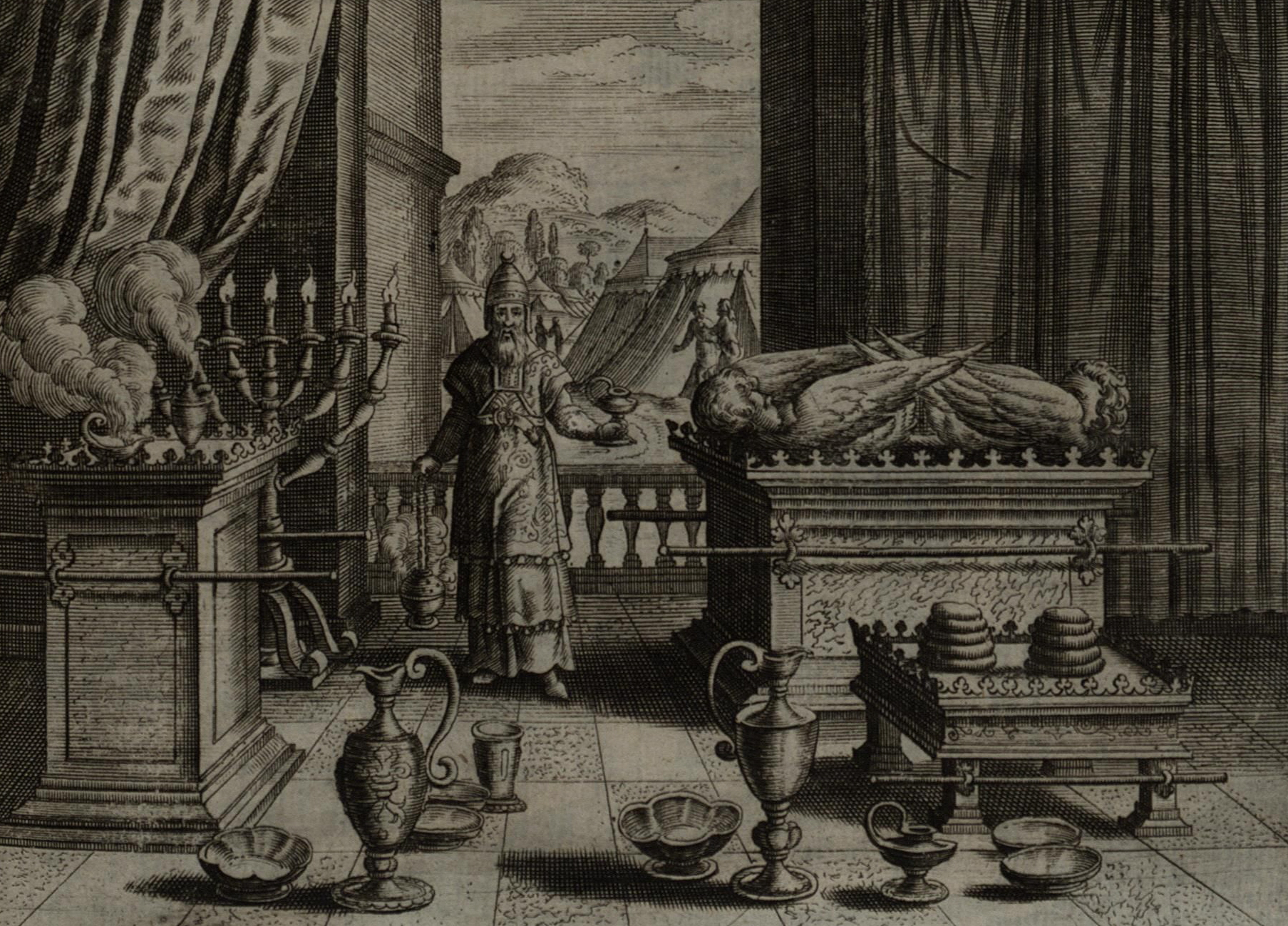 Aaron in the tabernacle, engraving by Gérard Jollain, published 1670 in "La Saincte Bible, Contenant le Vieil and la Nouveau Testament, Enrichie de plusieurs belles figures/Sacra Biblia, nouo et vetere testamento constantia eximiis que sculpturis et imaginibus illustrata, De Limprimerie de Gerard Jollain"